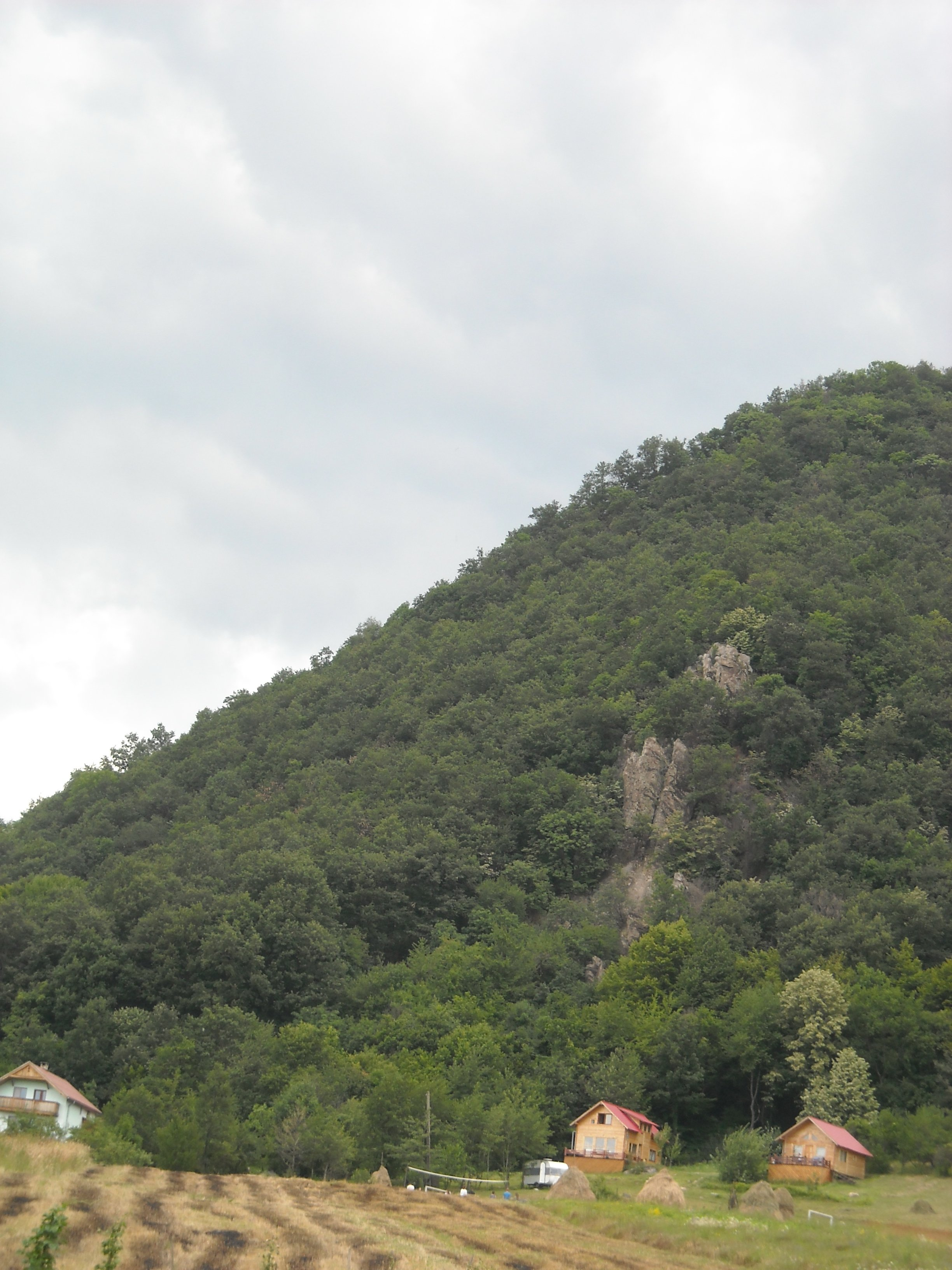 holiday houses at the foot of Lidisoimea hill